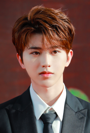 Cai Xukun is the spokesman of this activity